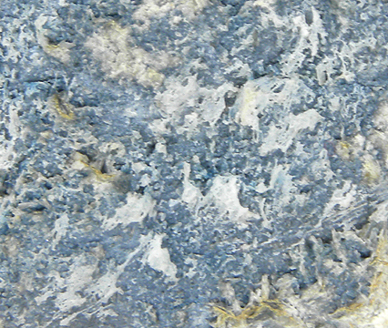 Ilsemannite Locality: Mogul Tunnel Occurrence, Boulder County Tungsten District, Boulder County, Colorado, USA (Locality at ) Size: 6.0 x 3.8 x 2.7 cm. A very rich sample of fine blue Ilsemannite on matrix from the Mogul Tunnel in Boulder County, Colorado. There is some question as to whether or not this Molybdenum oxide is a valid species, but I cannot find anything in the current literature to say whether or not it is valid or discredited. Nonetheless, specimens of this material are not seen on the market in any quantity, and this is certainly one of the finest pieces that I know of from Boulder County. Ex. Richard Kosnar Collection.